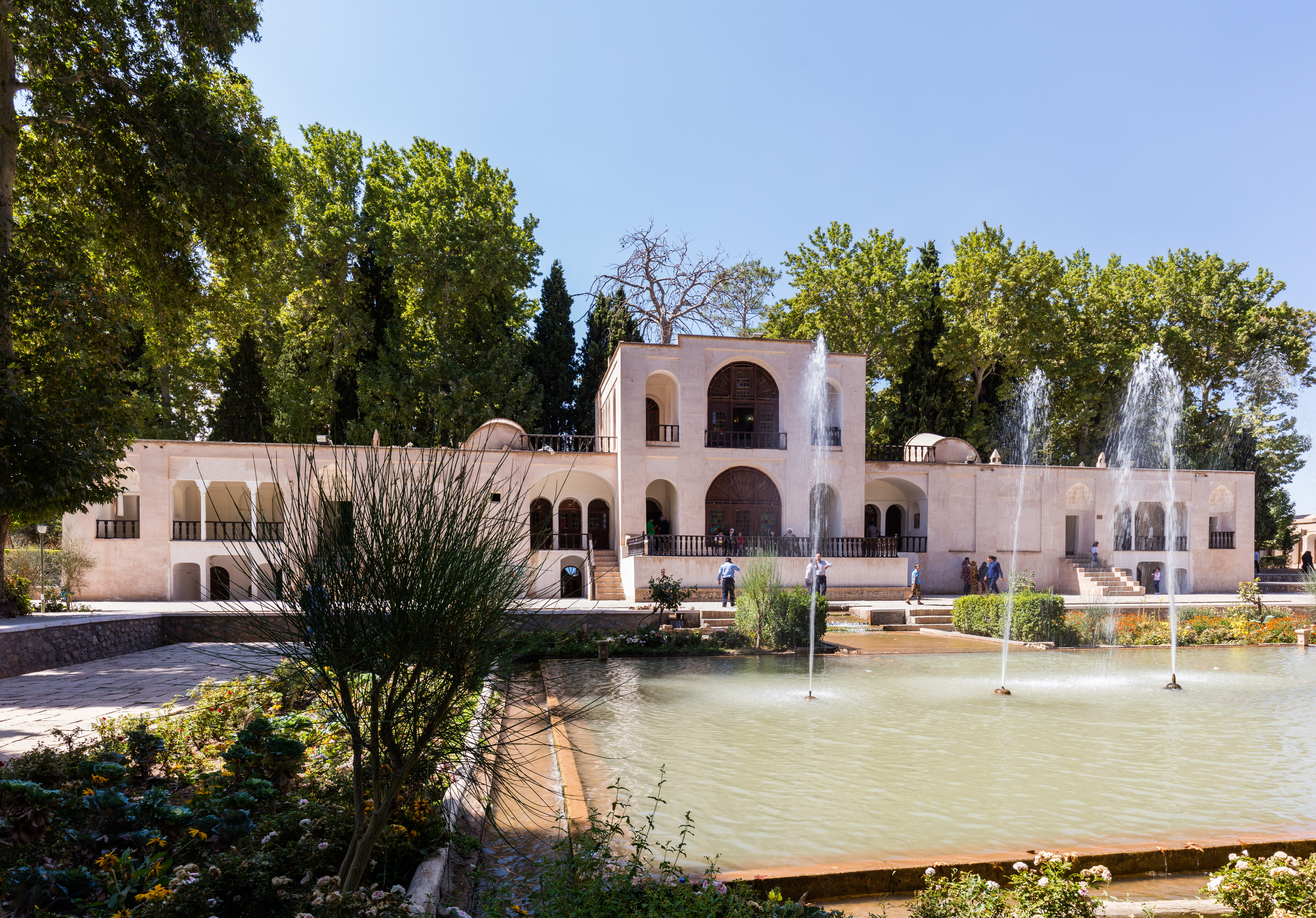 Shazdeh Garden, Mahan, Iran